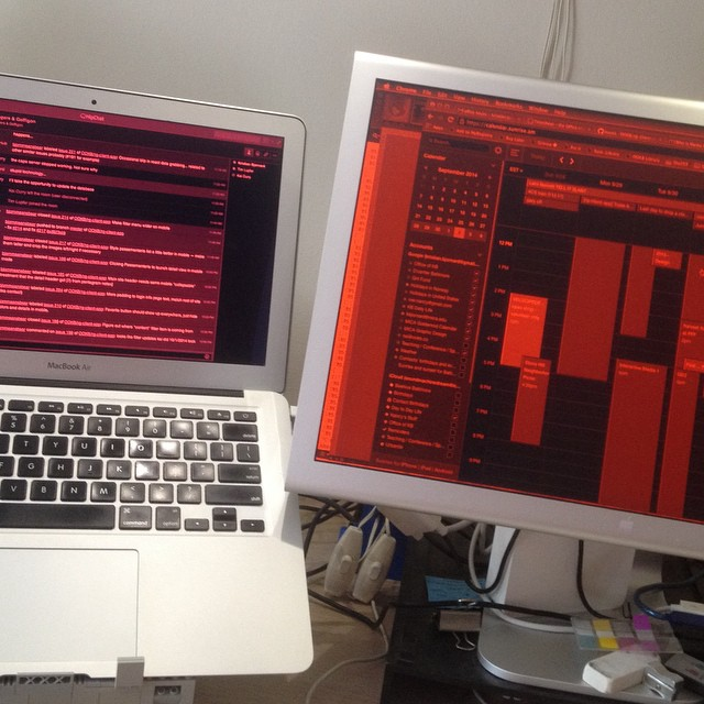 Photo depicting the "darkroom mode" of the computer program f.lux